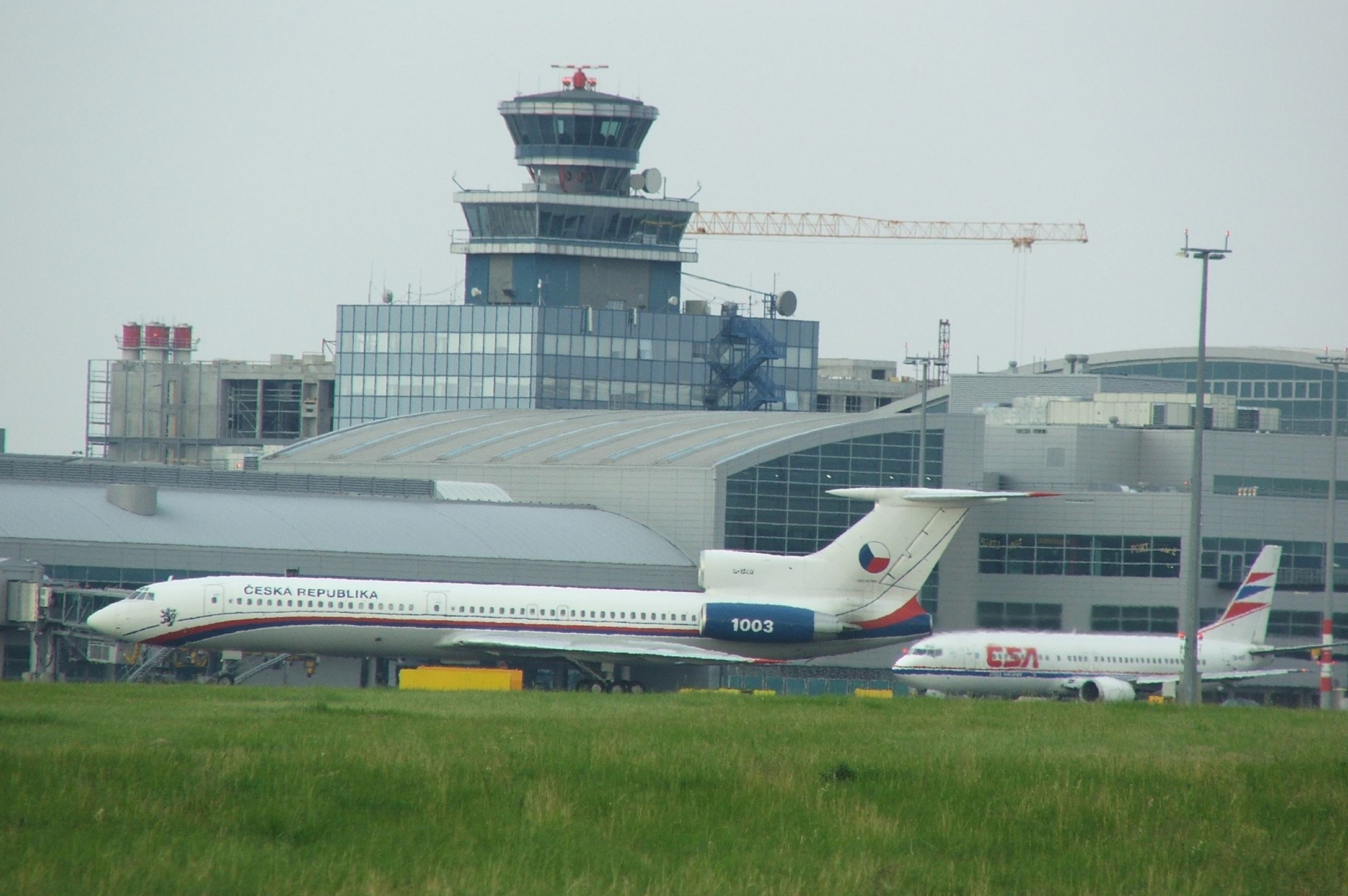 Airport control tower of Prague Ruzyně airport, Czechia and Czech Air Force Tupolev-154